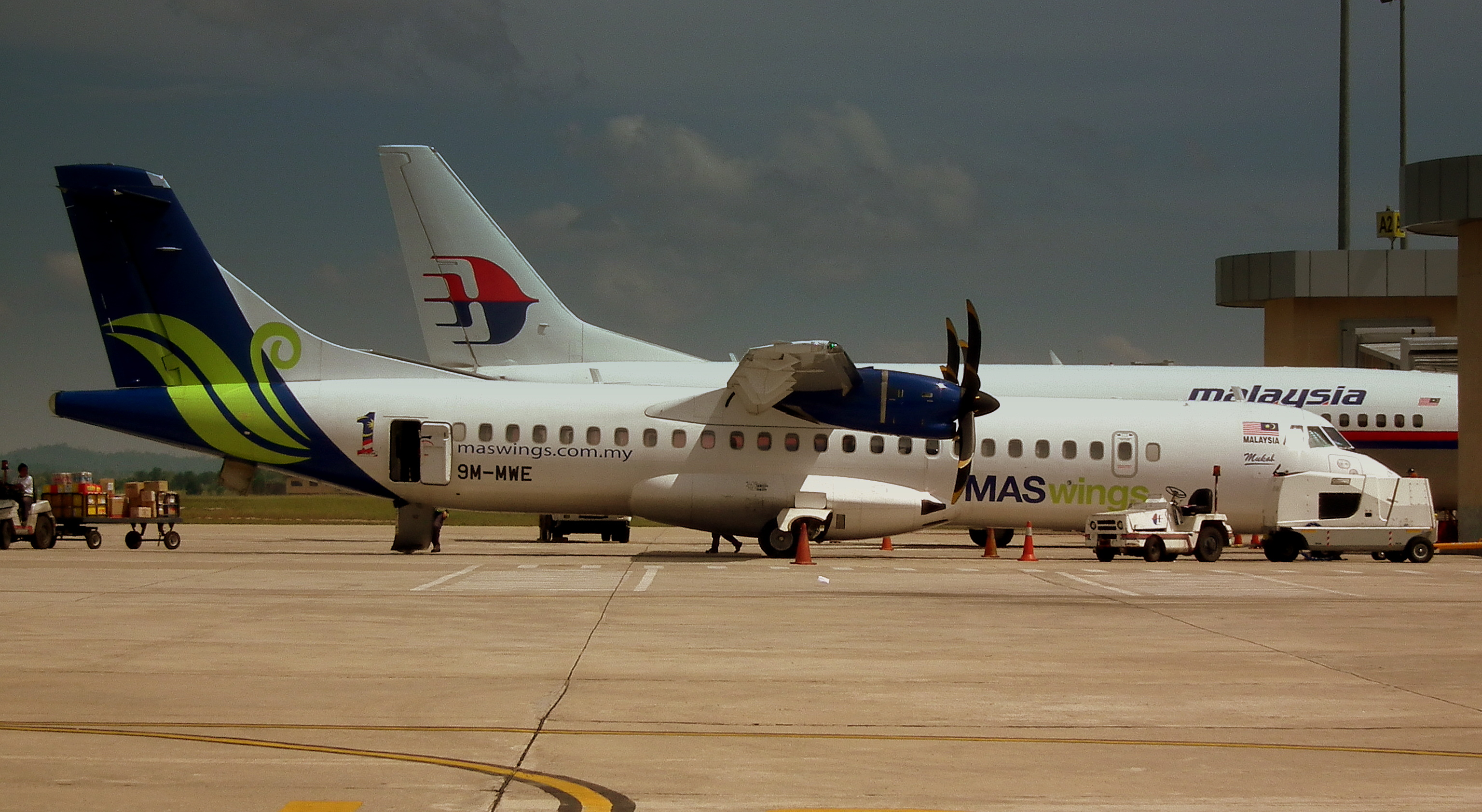 MAS WINGS ATR72 9M-MWE AT MIRI AIRPORT SARAWAK ISLAND OF BORNEO JUNE 2011